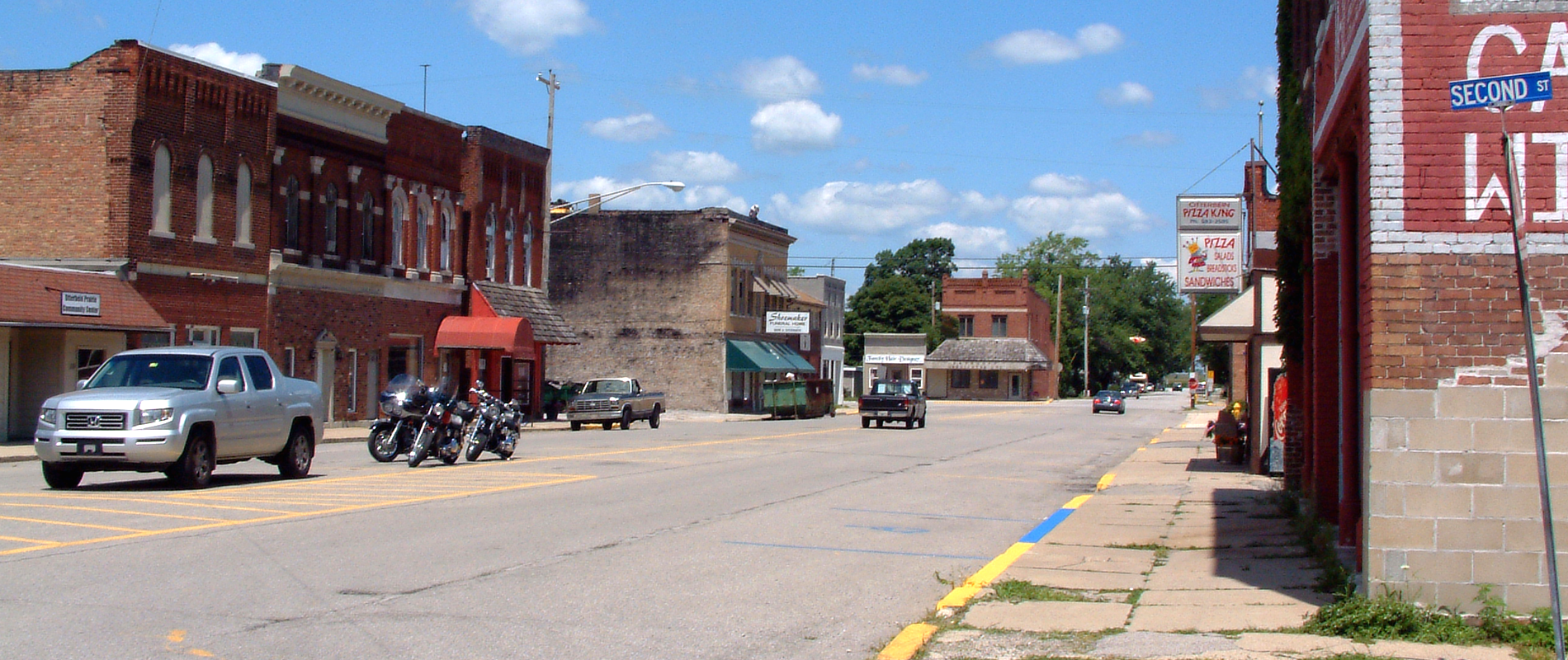 Looking north along Main Street in the town of Otterbein, Indiana. Photo taken from Second Street intersection.